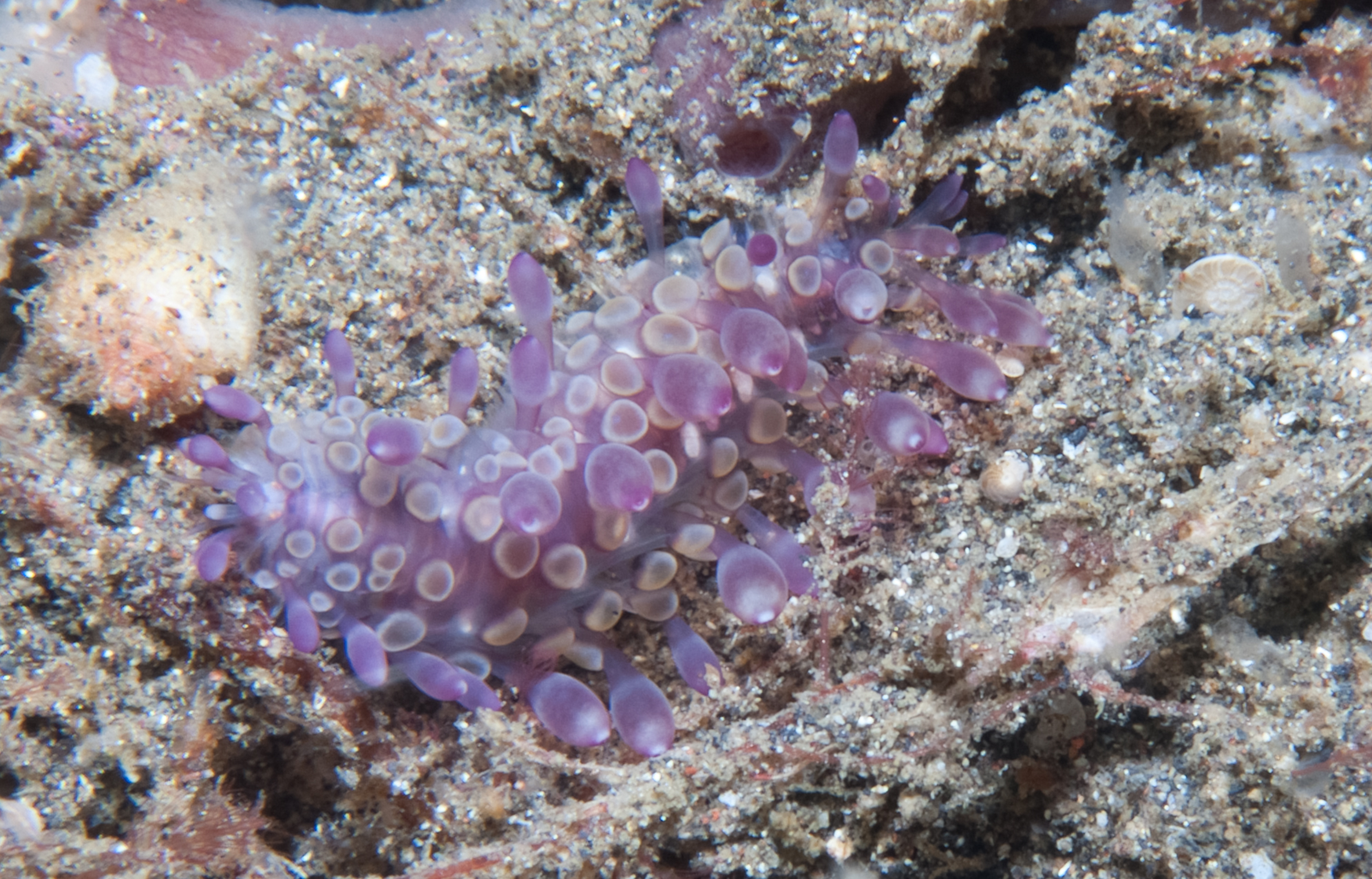 photograph of a scale worm seen at Lembeh Straits in 20m of water